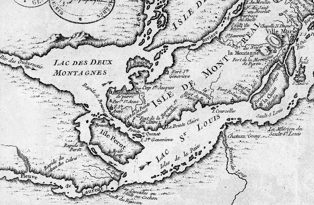 This is a detail of the original source map, cropped to depict the western part of the Isle of Montreal and immediately surrounding mainland as far as Les Cèdres. The map's caption reads "Montreal et ses Environs" (Montreal and its environs). It depicts a number of places relevant to the 1776 Battle of the Cedars.